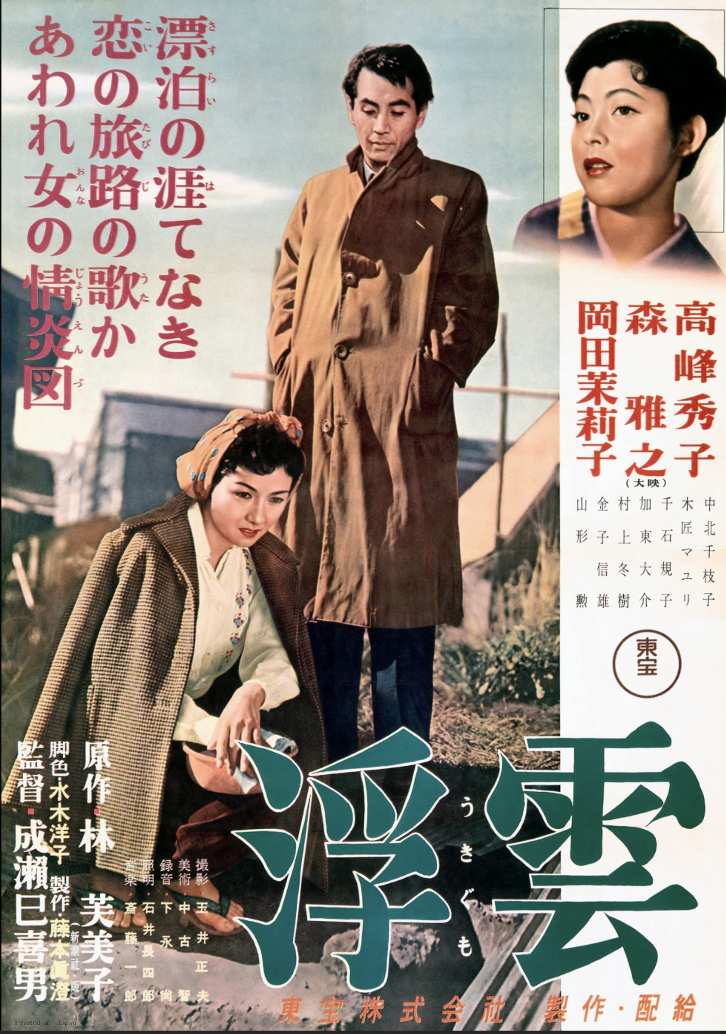 1955 Japanese movie poster for 1955 Japanese movie Floating Clouds (浮雲 Ukigumo) showing Masayuki Mori (standing) and ... .